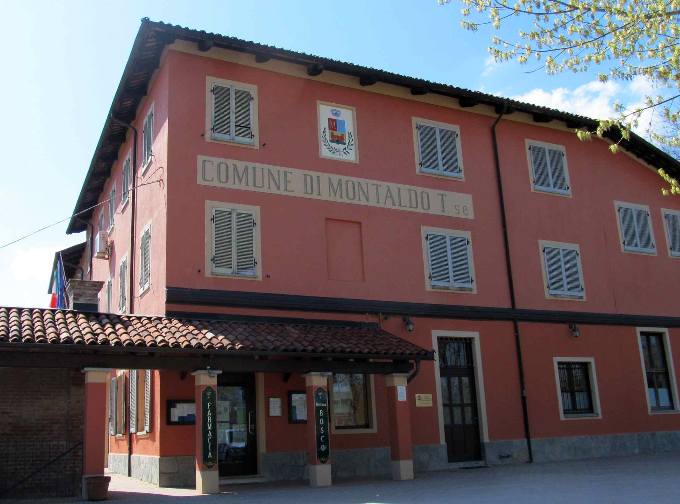 Montaldo Torinese (TO, Italy): town hall